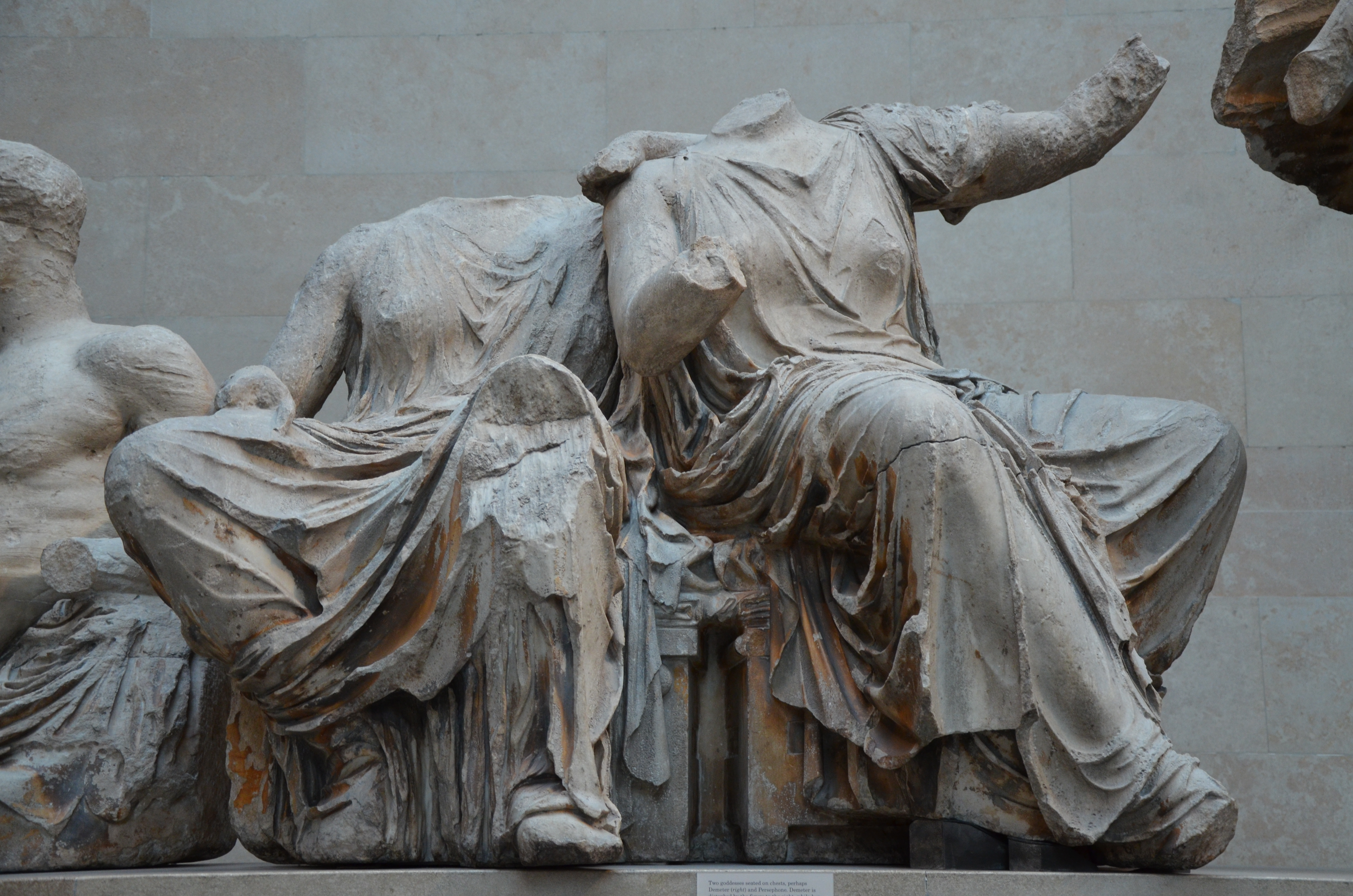 The Parthenon sculptures, British Museum